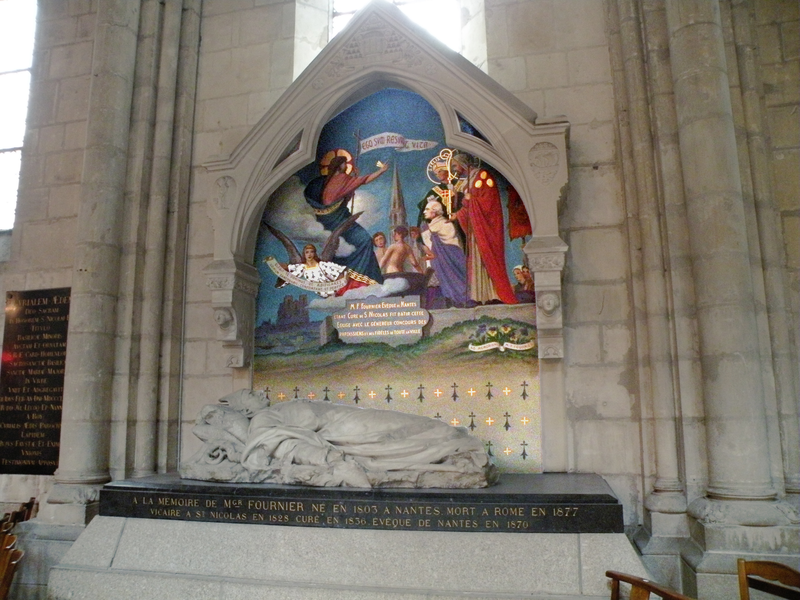 Monument in Basilica Saint-Nicolas in Nantes dedicated to Msgr. Félix Fournier (1803-1877), bishop of Nantes.